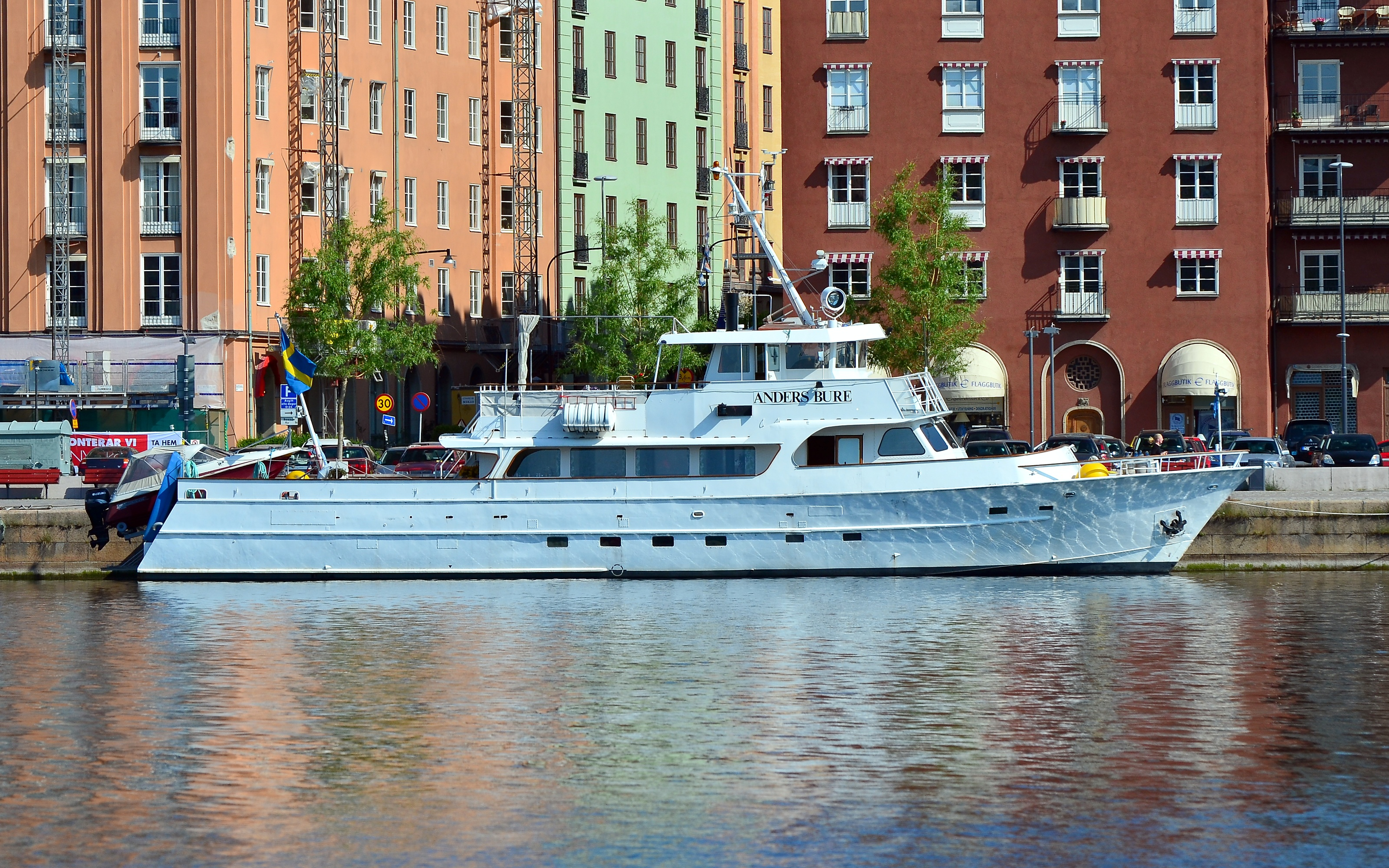 Former survey ship, now charter yacht, Anders Bure by Norr Mälarstrand in Stockholm, Sweden.